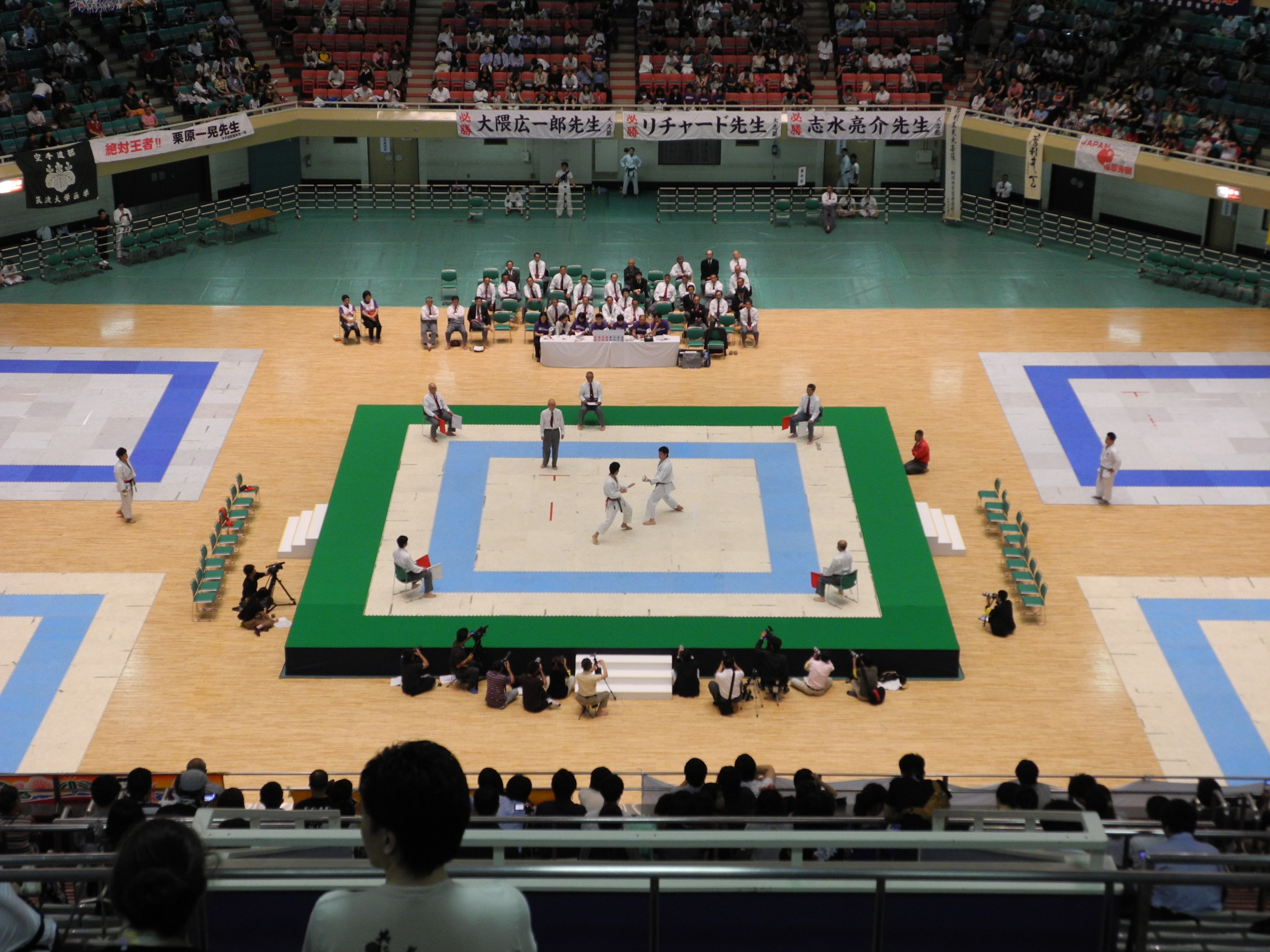 One of the final matches in kumite at the 2012 JKA Adult All-Japan Tournament.